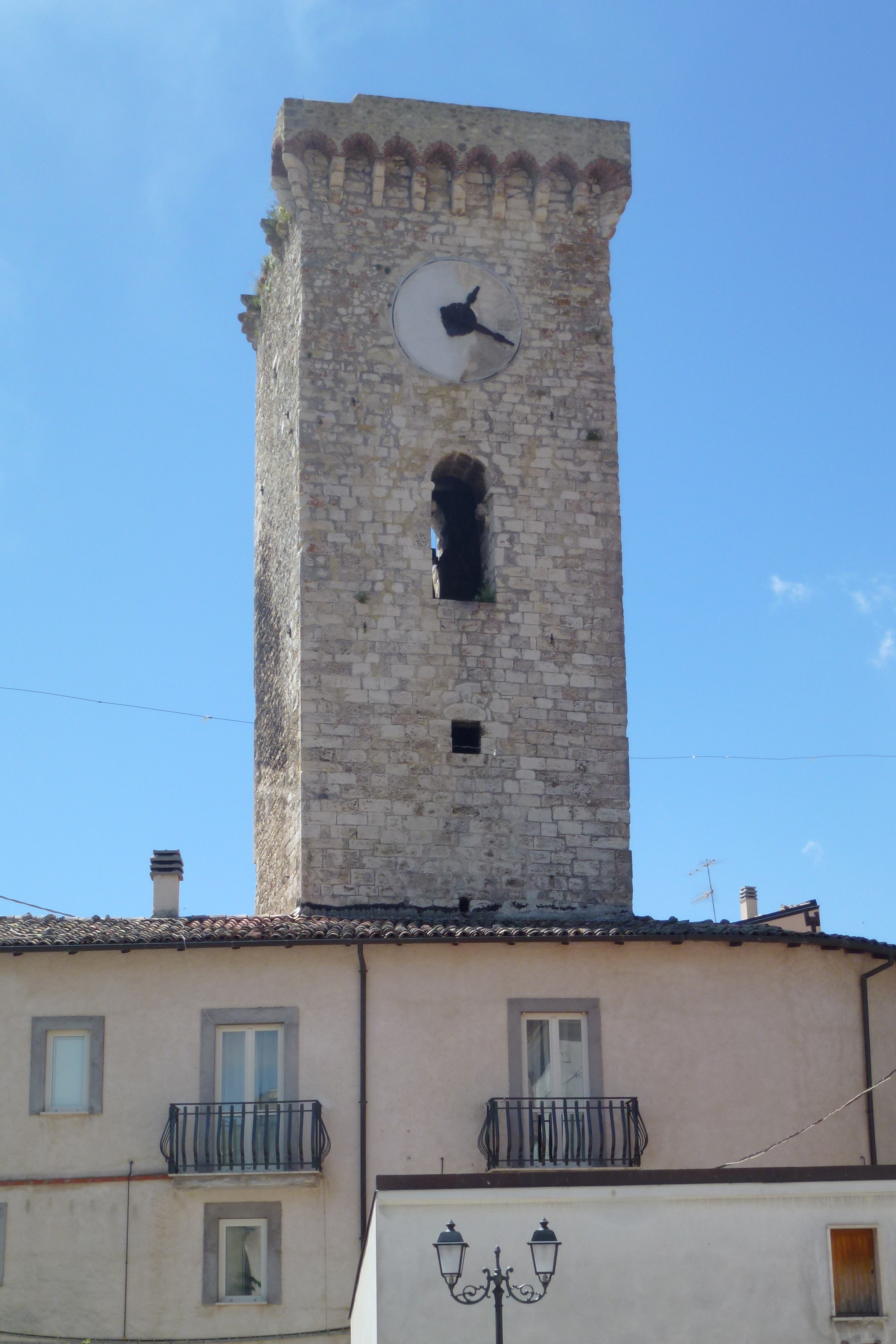 67030 Cocullo AQ, Italy